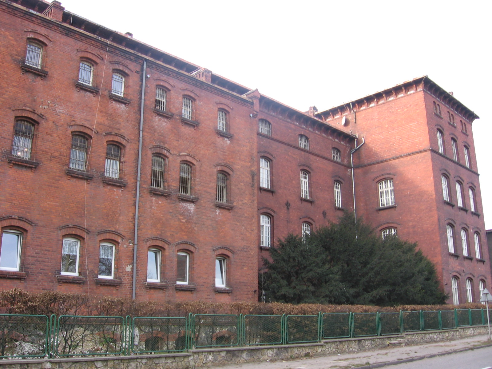 Toszek – Mantal-Hospital.